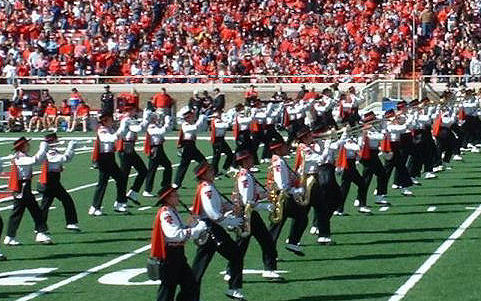 Texas Tech University's Goin' Band from Raiderland performing during halftime at the 2006 Texas Tech Red Raiders vs. Baylor Bears football game at Jones AT&T Stadium in Lubbock, Texas. The Red Raiders defeated the Bears 55-21. Cropped version created by Elred